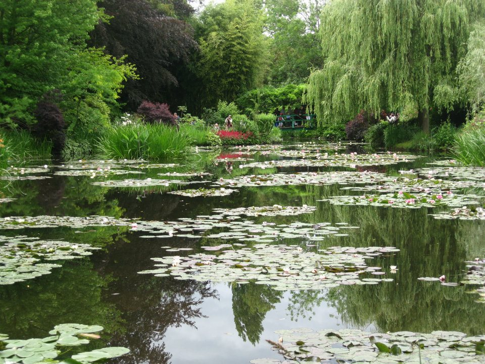 A picture taken of the waterlilies in Monet's gardens.